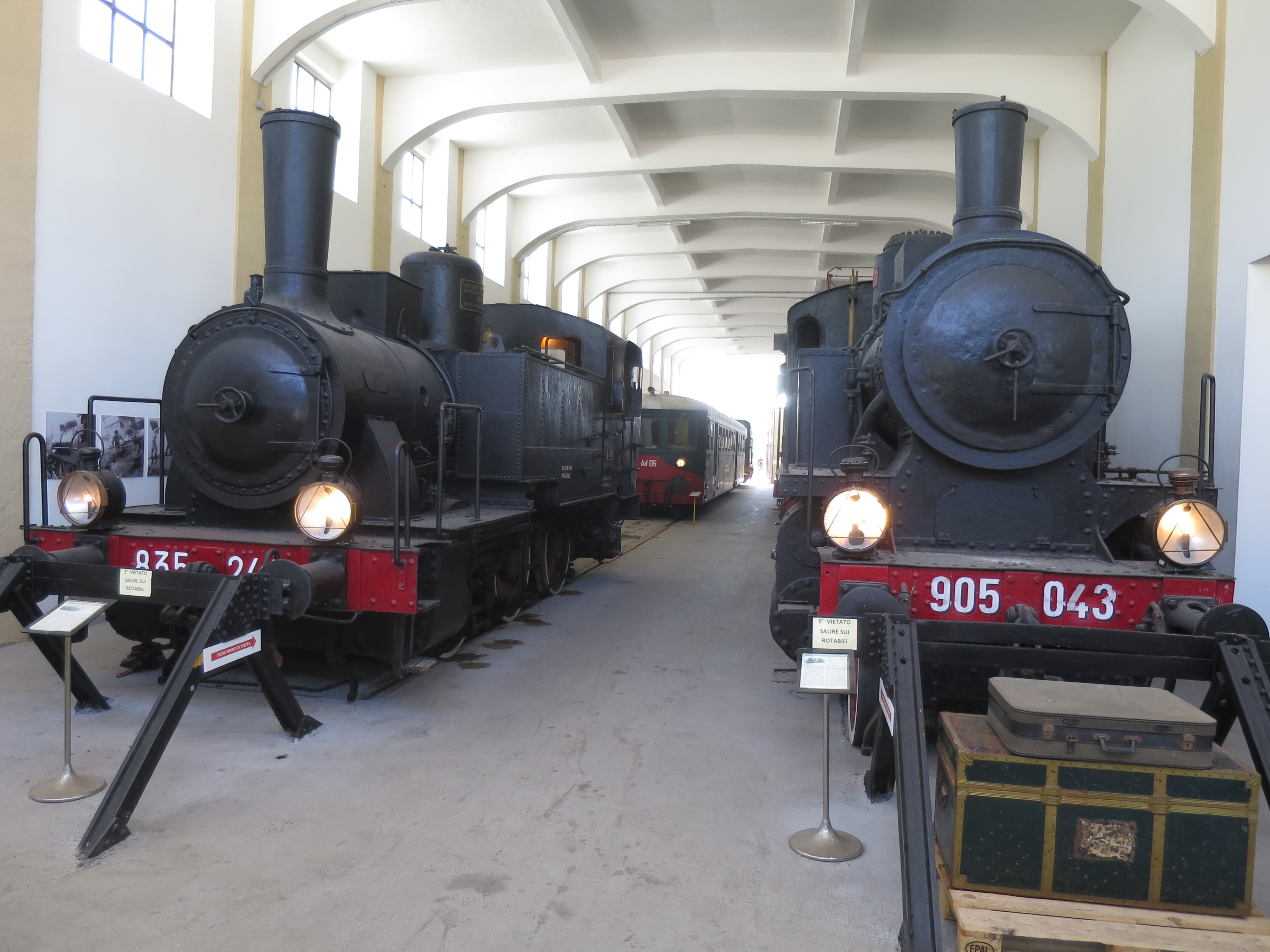 Steam engines 905.043 and 835.244 im Museo Ferroviario della Puglia